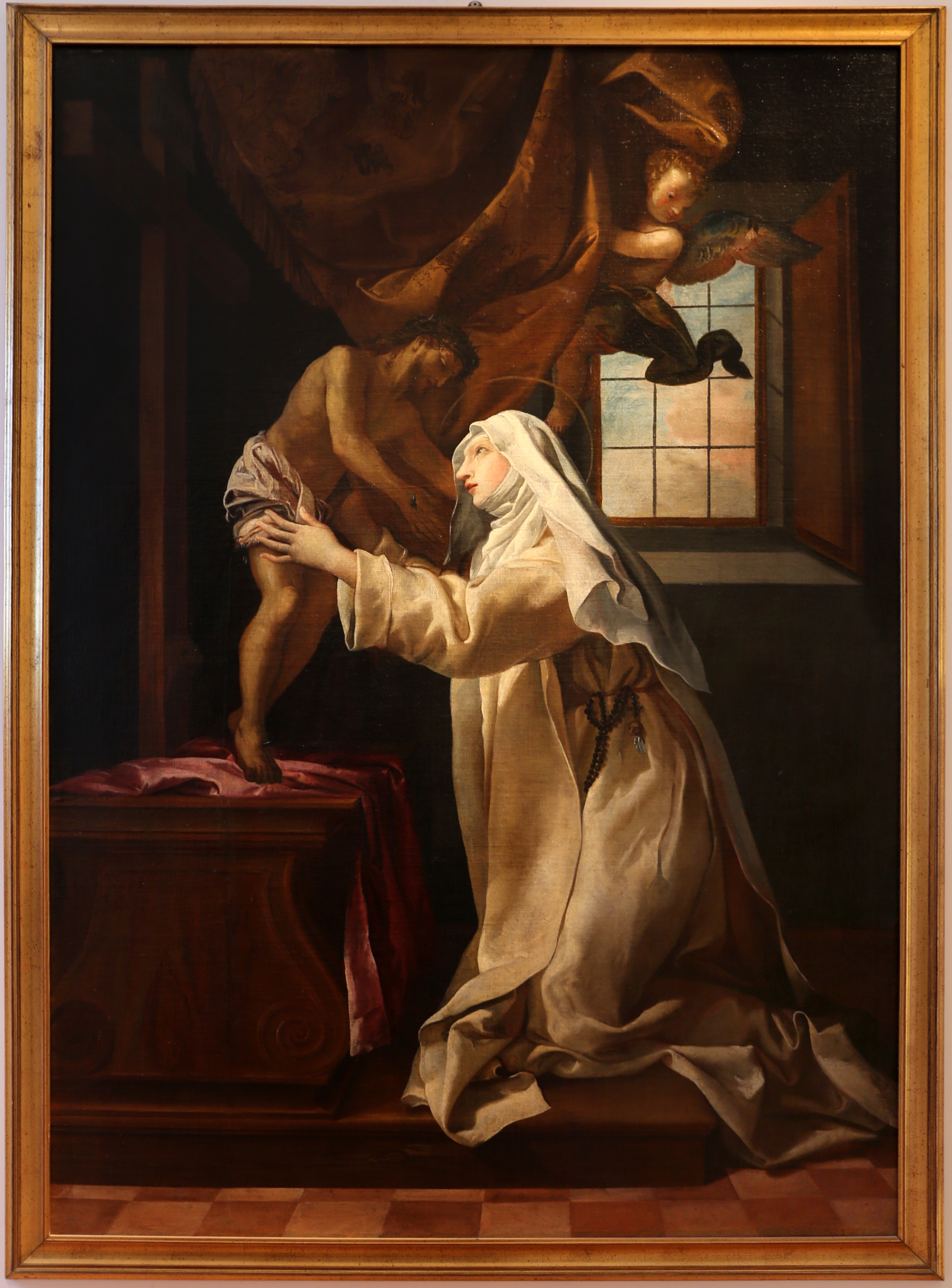 Santa Sabina (Rome) - Museum